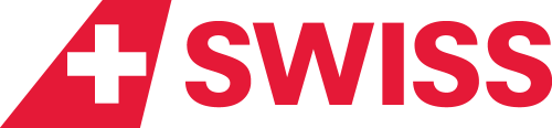 SWISS strengthens positioning and sharpens brand profile.